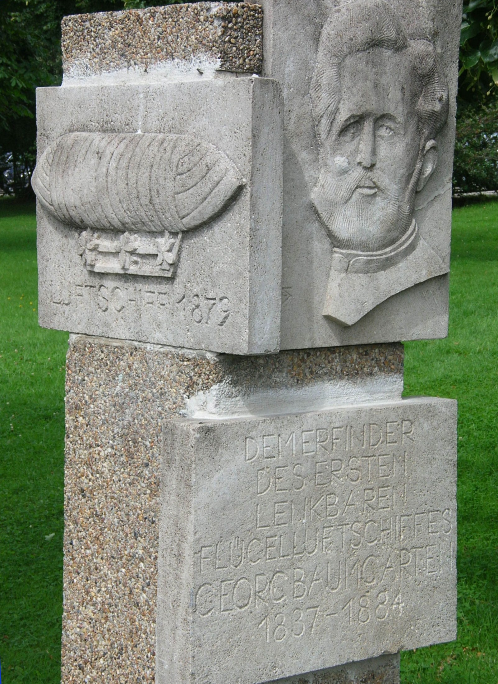 Baumgarten Memorial in Rabenstein, made 1990 by Chemnitz sculpturer Frank Diettrich